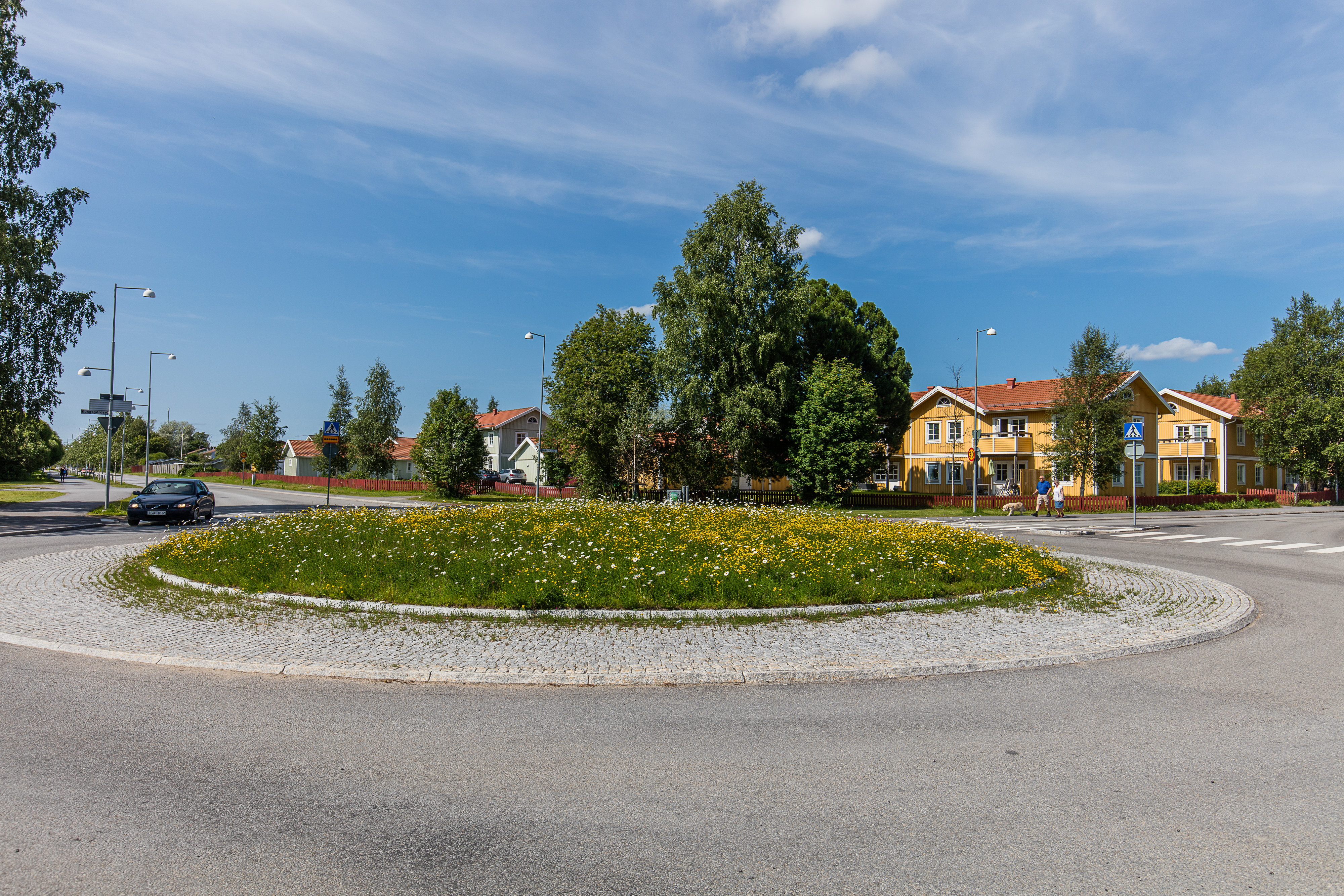 Rödäng is a district in Umeå, Sweden